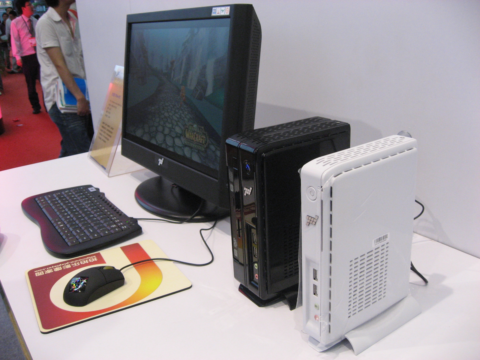 VIA based Thin PC on show at CHTF 2008